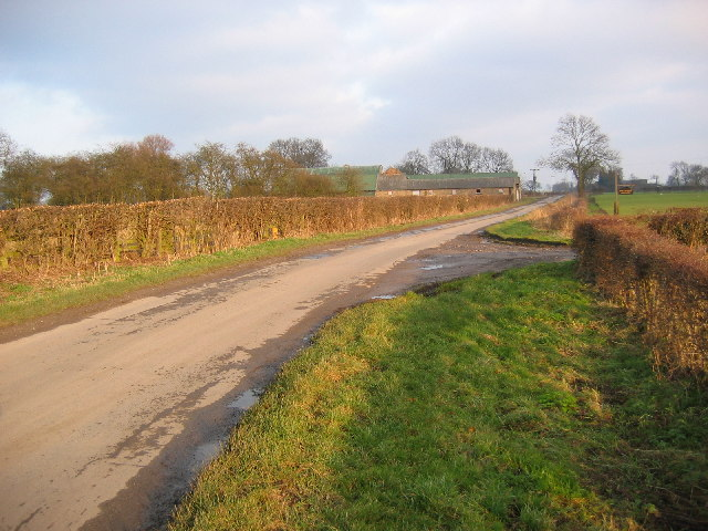 Bellasize, East Riding of Yorkshire, England.This grid square is all farmland. This view looking east.